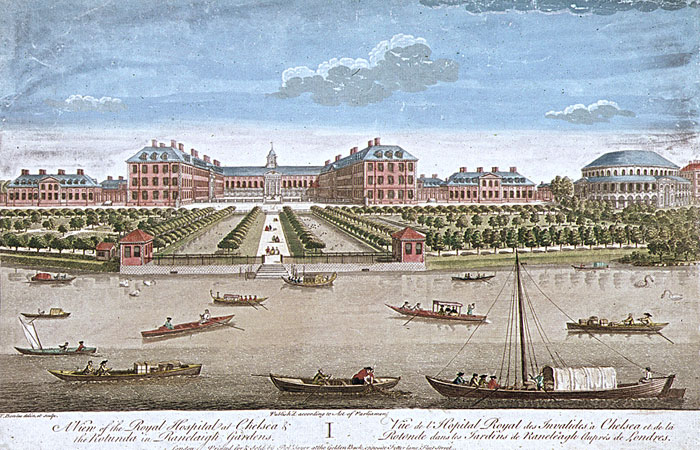 A mid 18th century print showing the Royal Hospital Chelsea and the rotunda of Ranelegh Gardens (on the right).